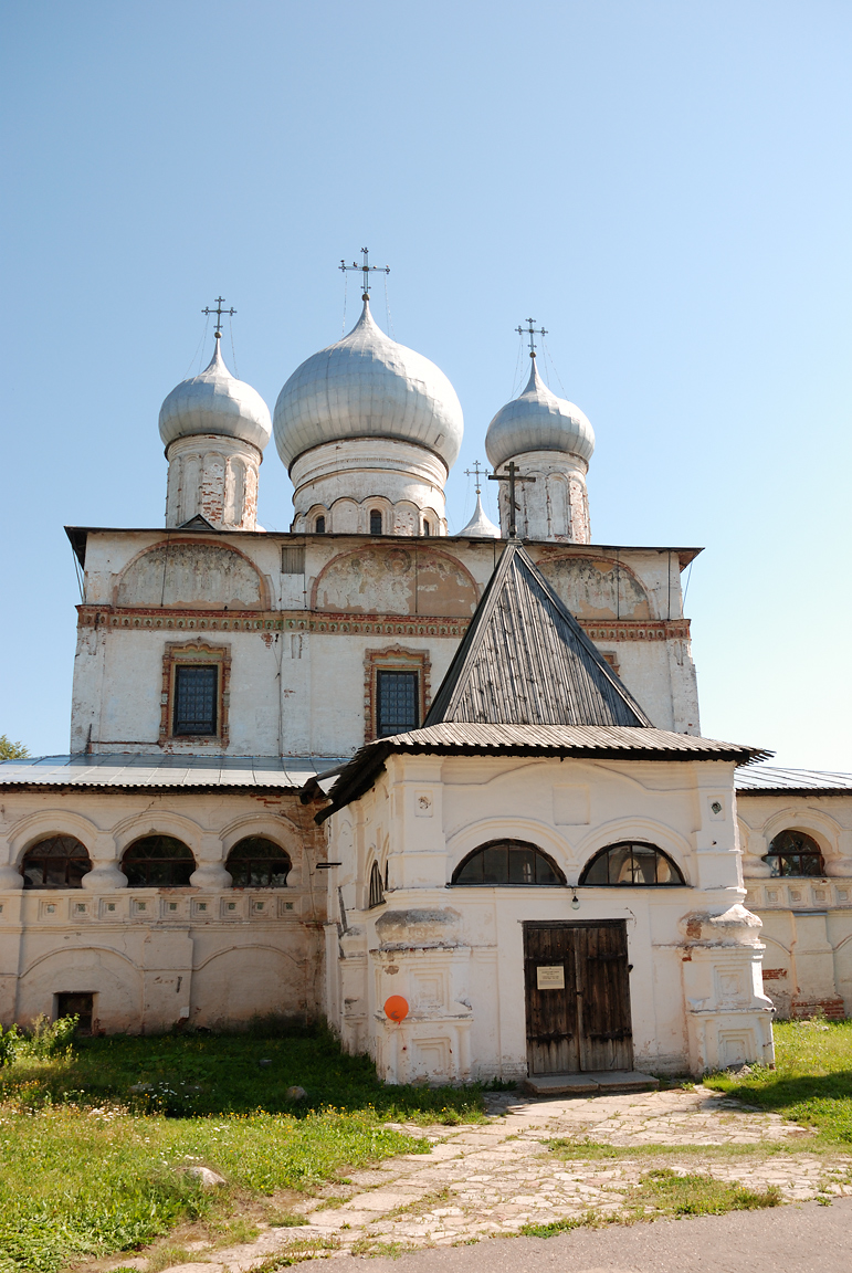 Veliky Novgorod, Church of the Theotokos of the Sign.